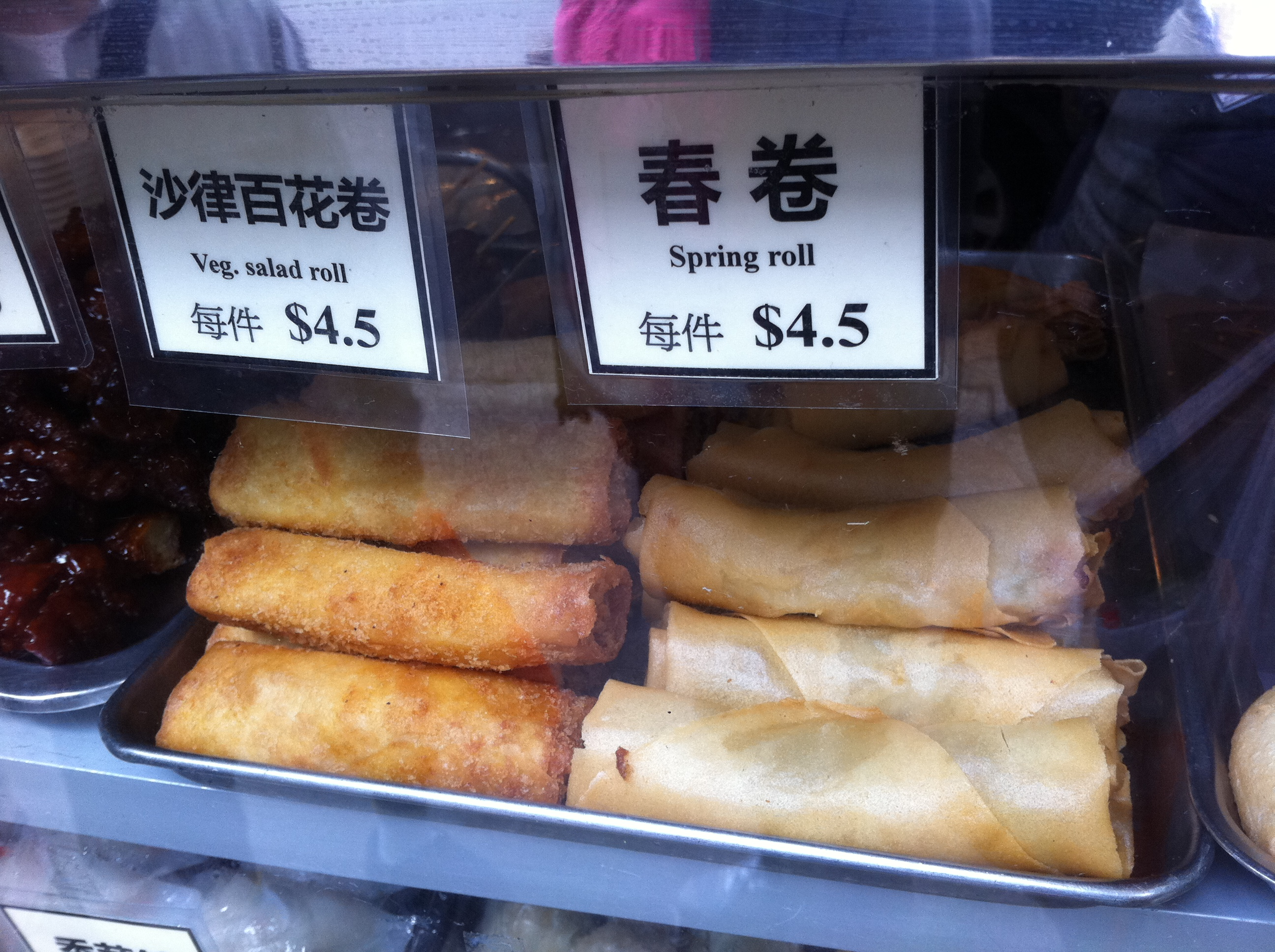 寶蓮苑素食, No.308 Queen's Road West, Sai Ying Pun, Hong Kong